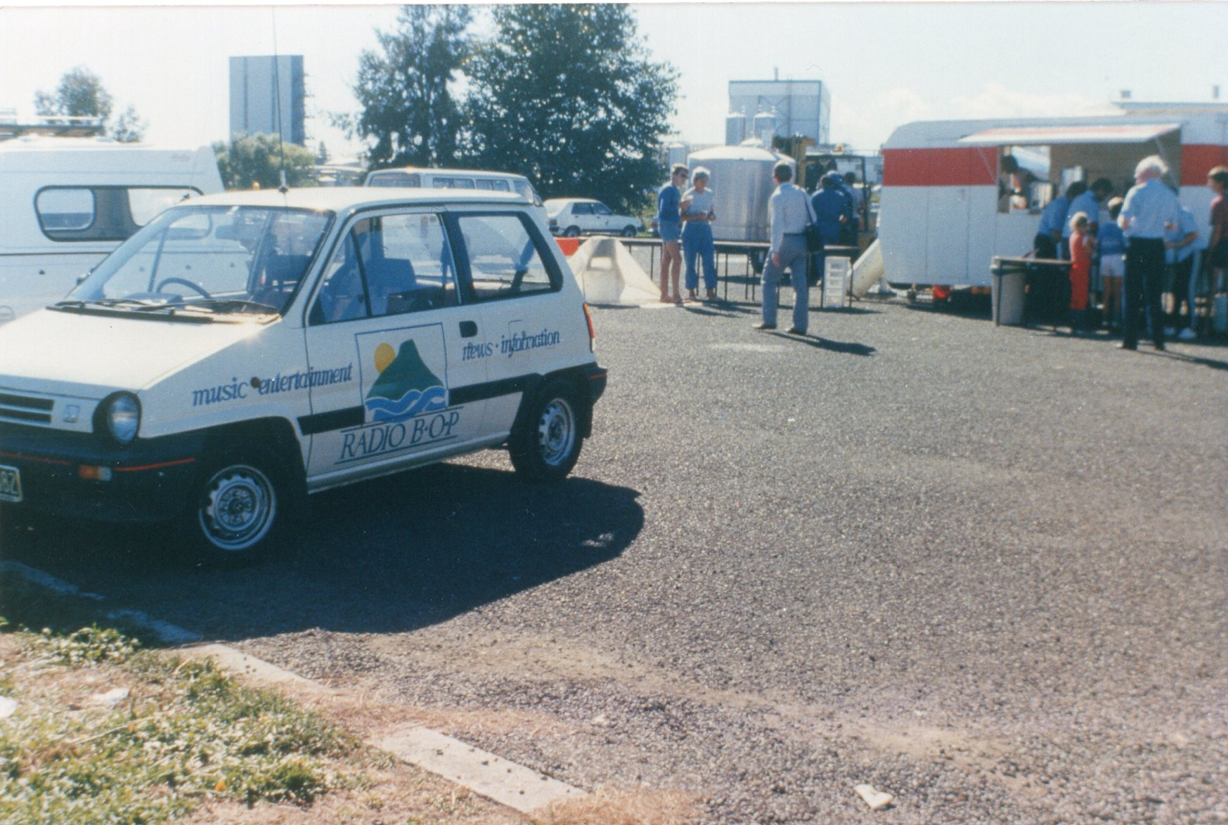 At 1.35 p.m. on 2 March 1987, a magnitude 5.2 earthquake struck the Bay of Plenty region, cutting power and sending many people outdoors. Minutes later a much stronger quake rocked the region. This main shock, at 1.42 p.m., had a magnitude of 6.3 and was centred north of Edgecumbe. Four aftershocks with magnitudes greater than 5 occurred in the next six hours, and smaller aftershocks were felt for weeks.